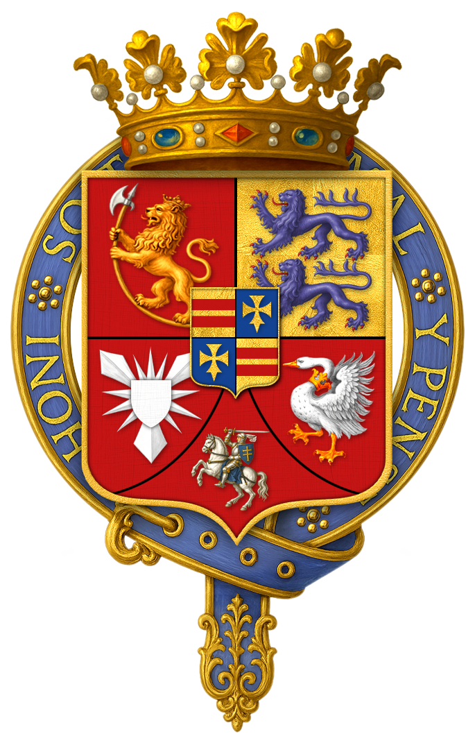 Garter encircled arms of Prince Christian of Schleswig-Holstein